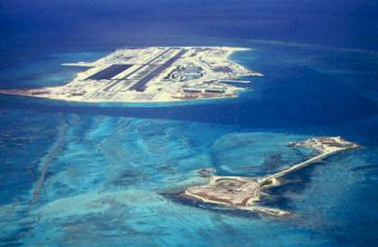 Aerial view of Johnston Atoll and Sand Island (looking Southwest)